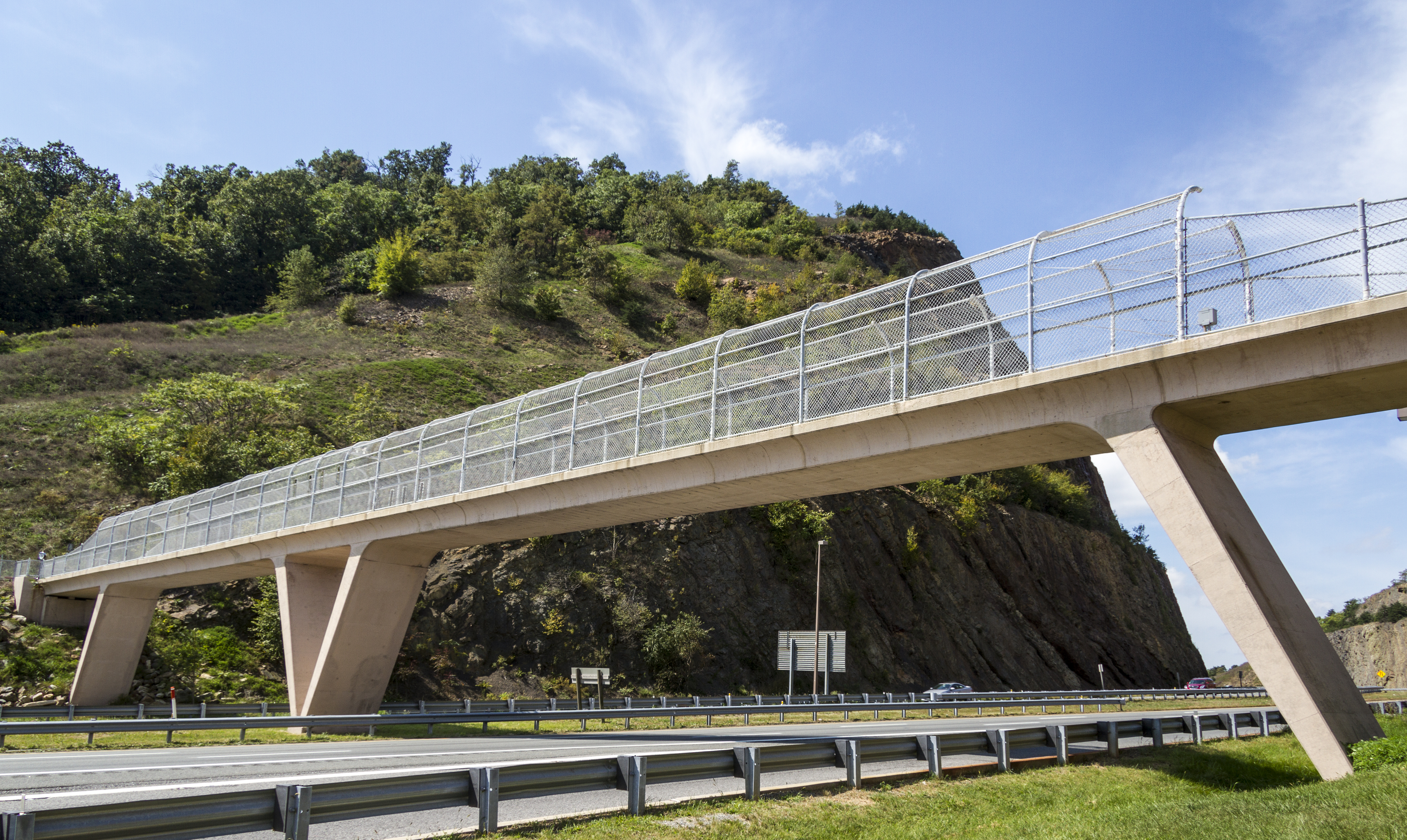 The Victor Cushwa Bridge at Sideling Hill roadcut, Washington County, Maryland, USA